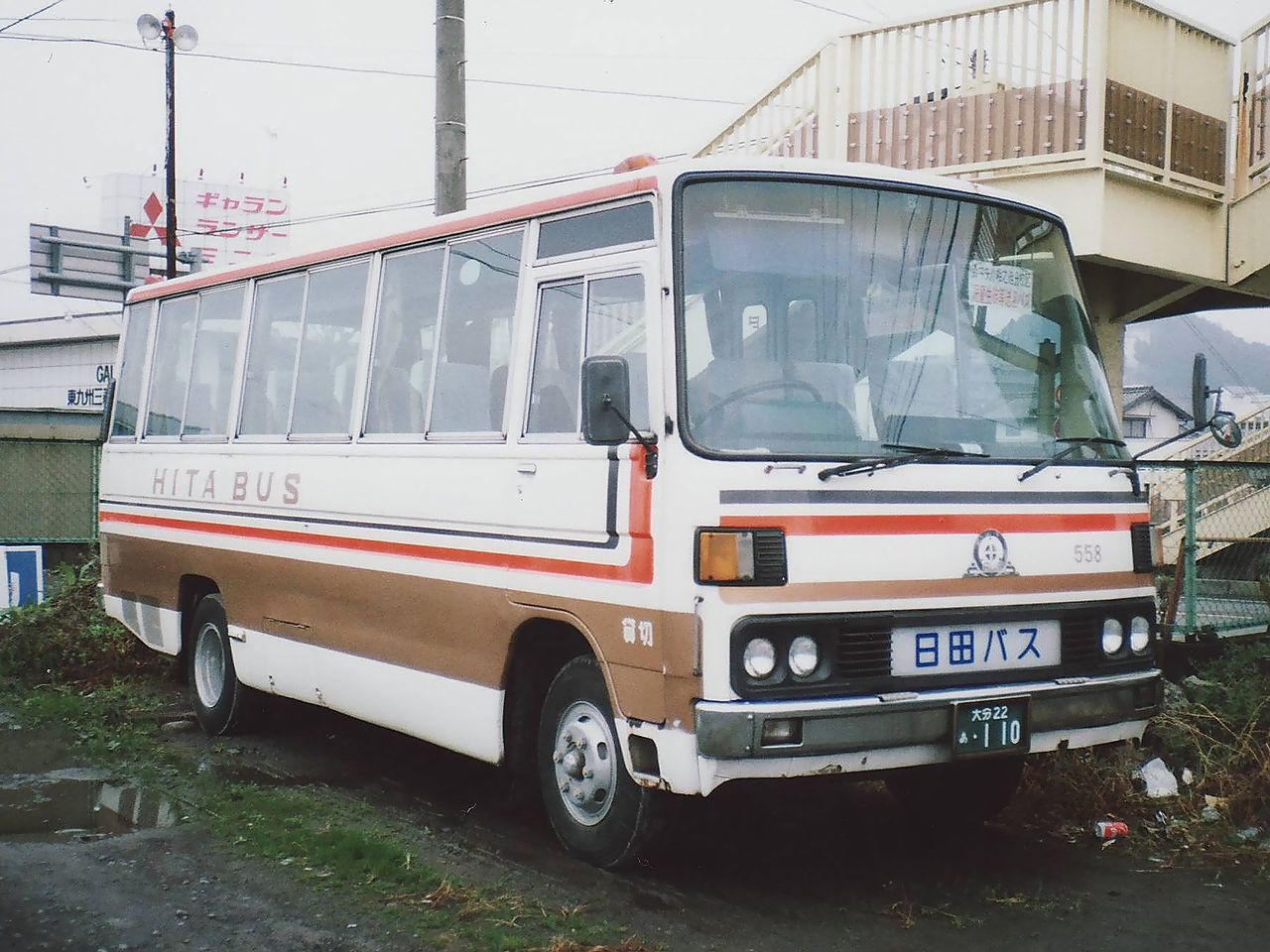 Company:Hita Bus Use:tour bus Car license:大分22 あ・110 Code:558 Chassis manufacturer:Mitsubishi Fuso Truck and Bus Corporation, 1981-1986 Fuso Rosa BK（BK215F） Coachbuilder:Mitsubishi Fuso Oe bus factory Location:in Hita City, Oita, Japan. Scanned from negative color print